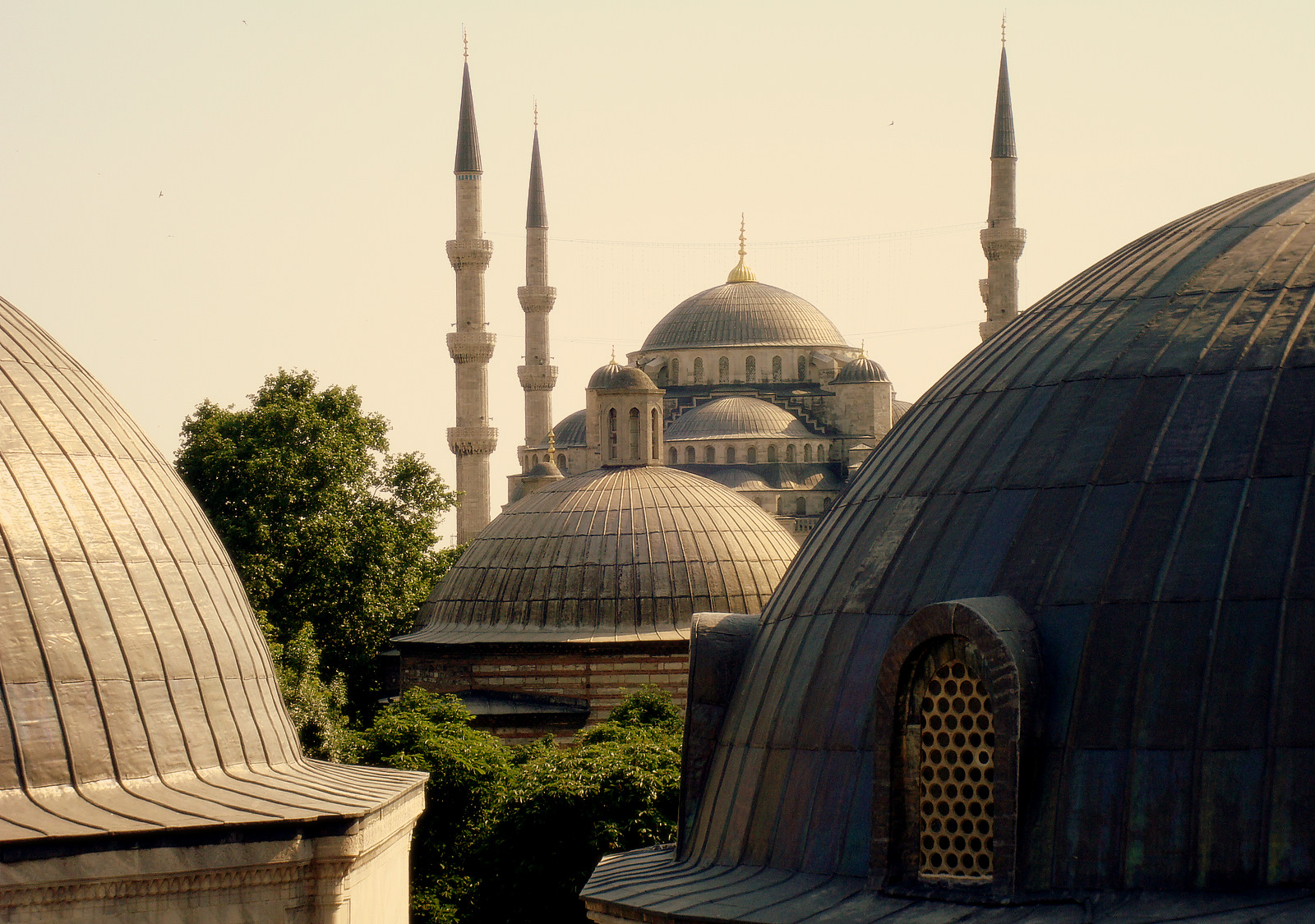 The Blue Mosque, Istanbul, Turkey